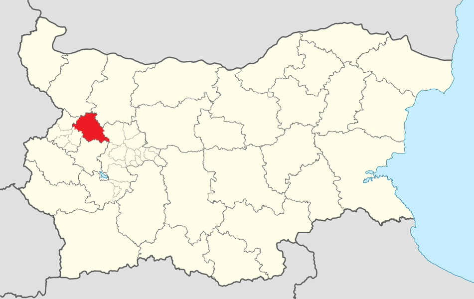 Location map of Svoge Municipality within Bulgaria and Sofia province